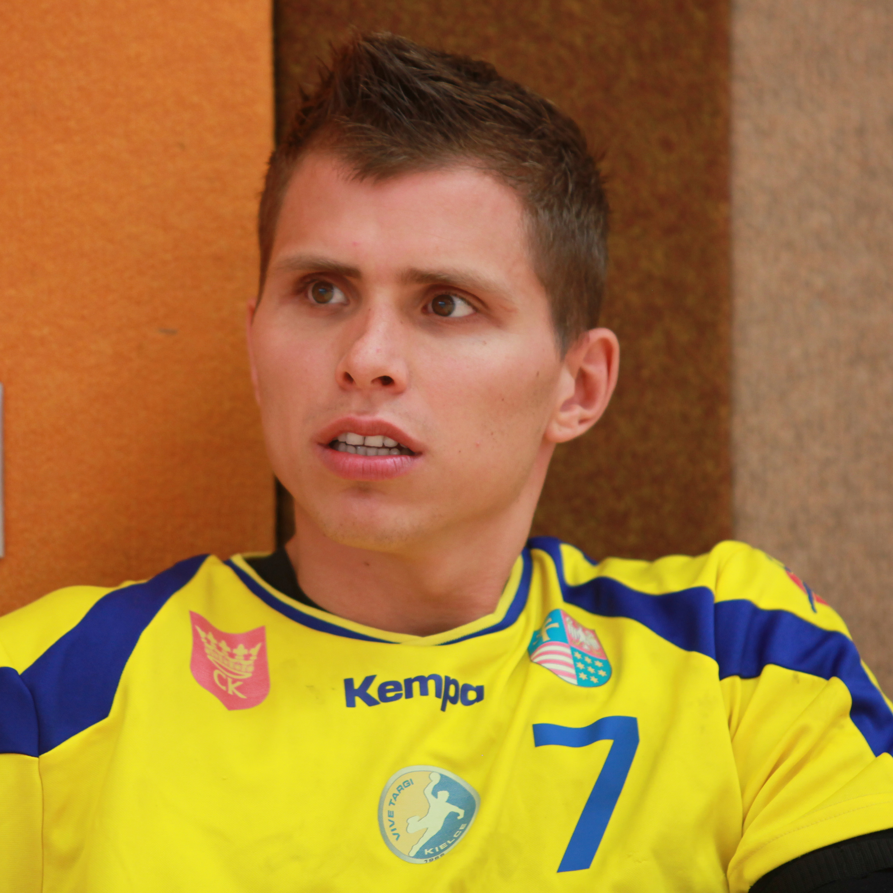 Bartłomiej Tomczak, on August 17th, 2012 in Ehingen (Germany), during the Sparkassen Cup (formerly known as Schlecker Cup).